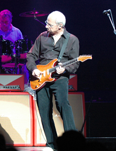 I took this picture July 3 2005. Mark Knopfler Concert in Ottawa, Ontario Canada Adrian Buss